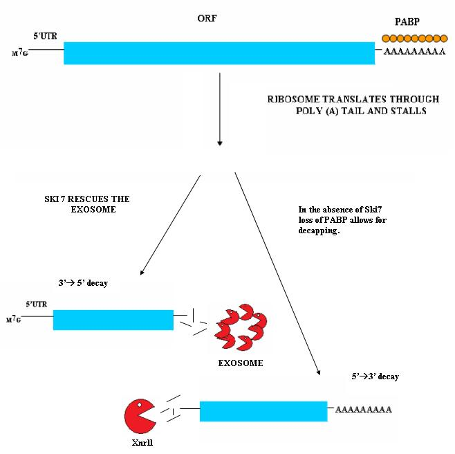 Non stop decay mechanism